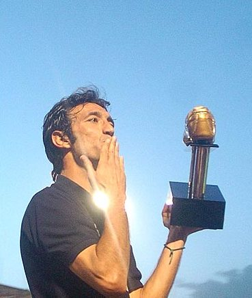 Esteghlal 4 - 1 Bargh Shiraz